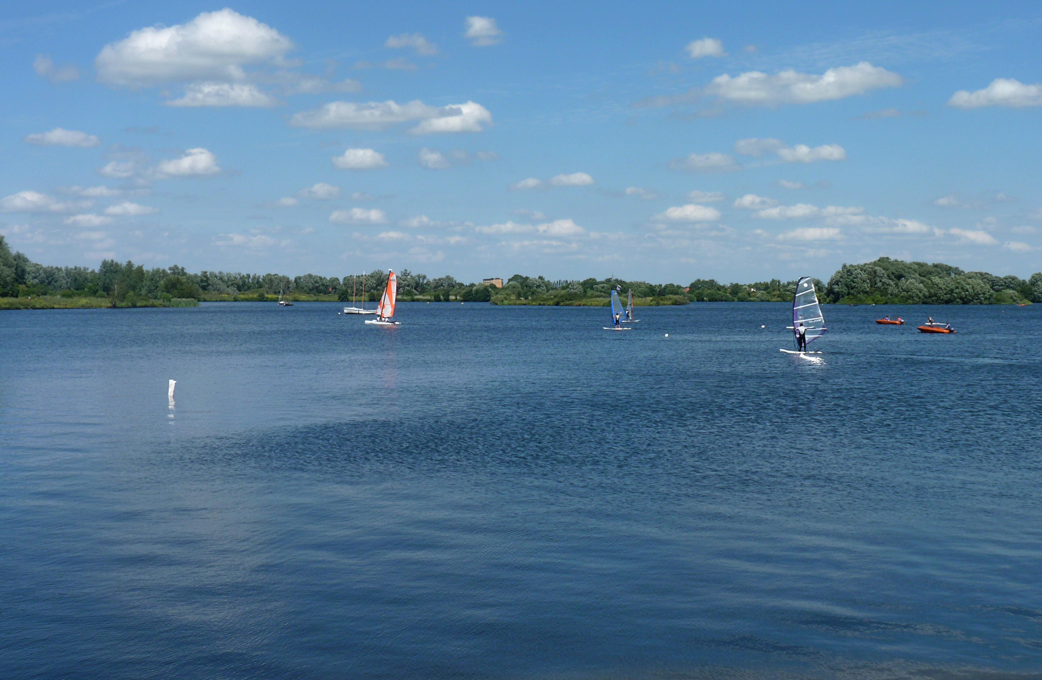 One of the water surfaces of the "Prés du Hem" in Armentières, France.